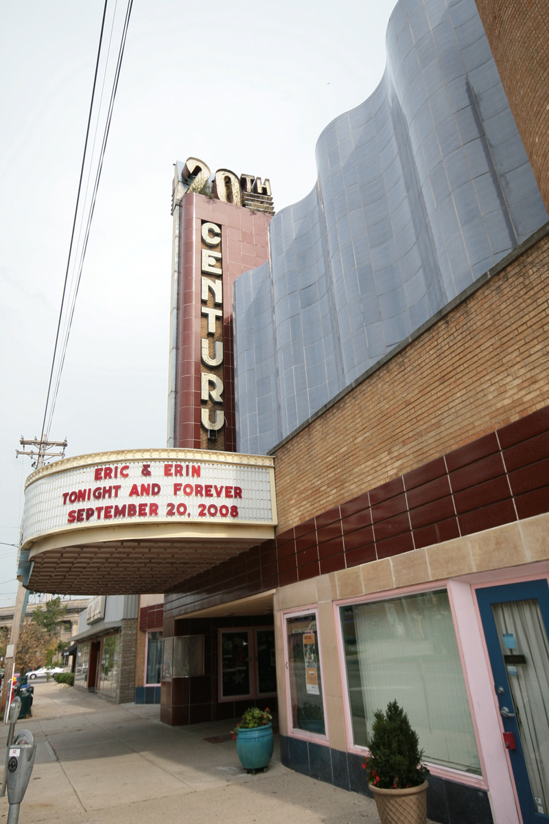 Twentieth Century Theatre in Cincinnati, OH. Photo by Greg Hume